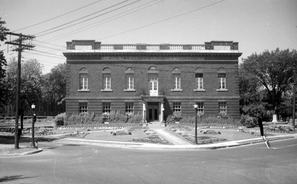 For documentary purposes the original description provided by BAnQ has been retained. Additional descriptive text may be added by Wikimedians with the wiki description = parameter, but please do not modify the other fields.